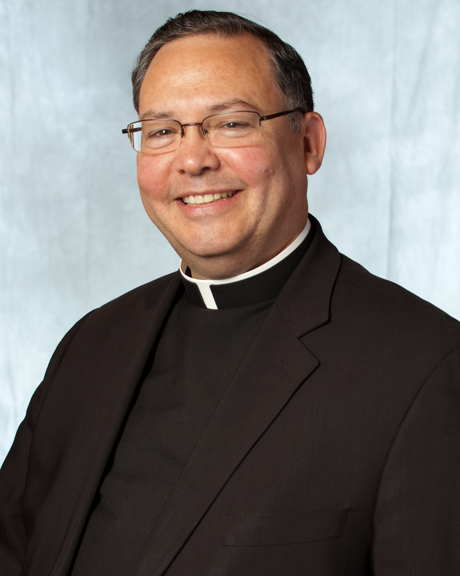 Bishop-Elect Eduardo Nevares